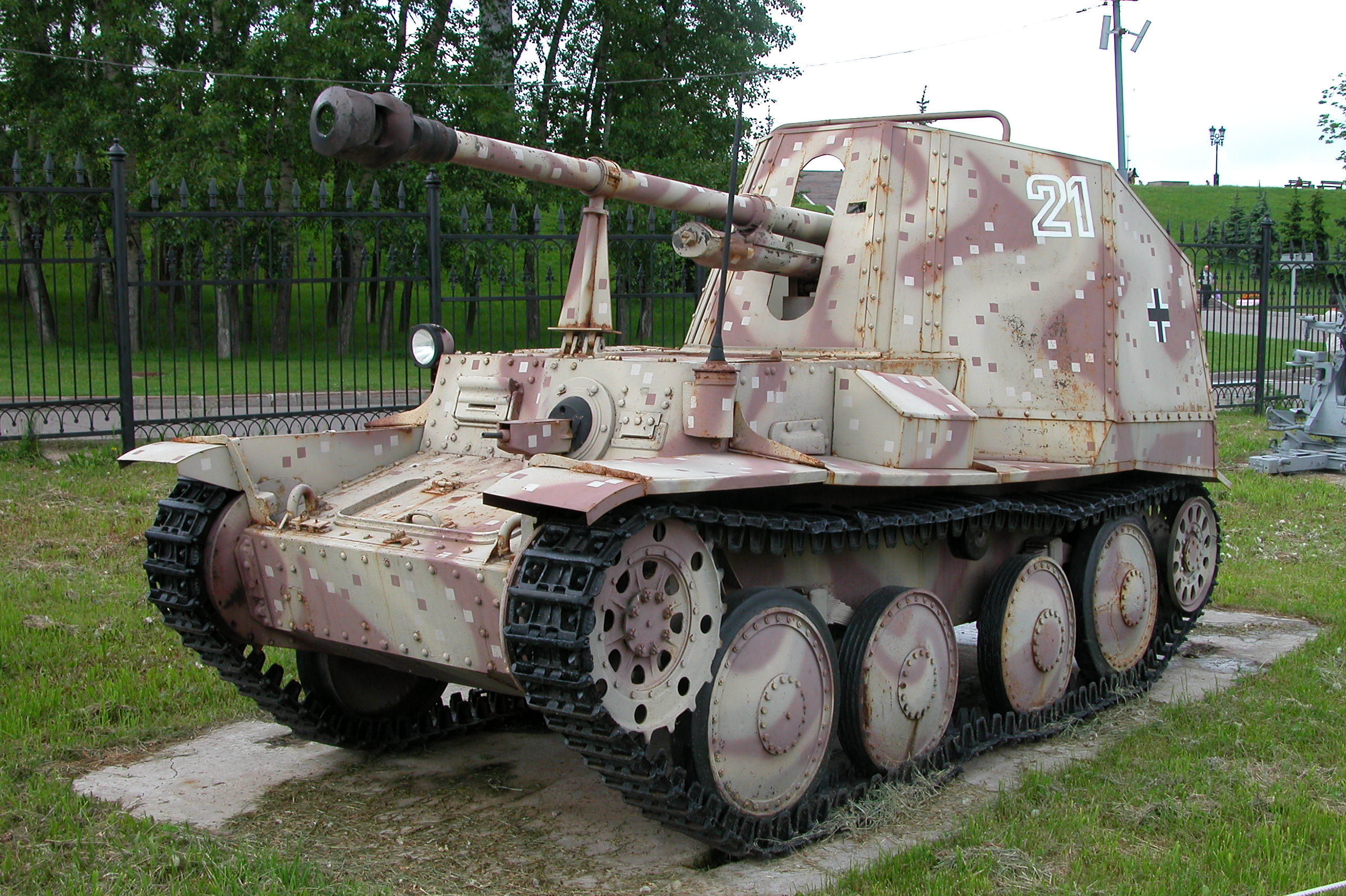 Marder III, Sd.Kfz. 138